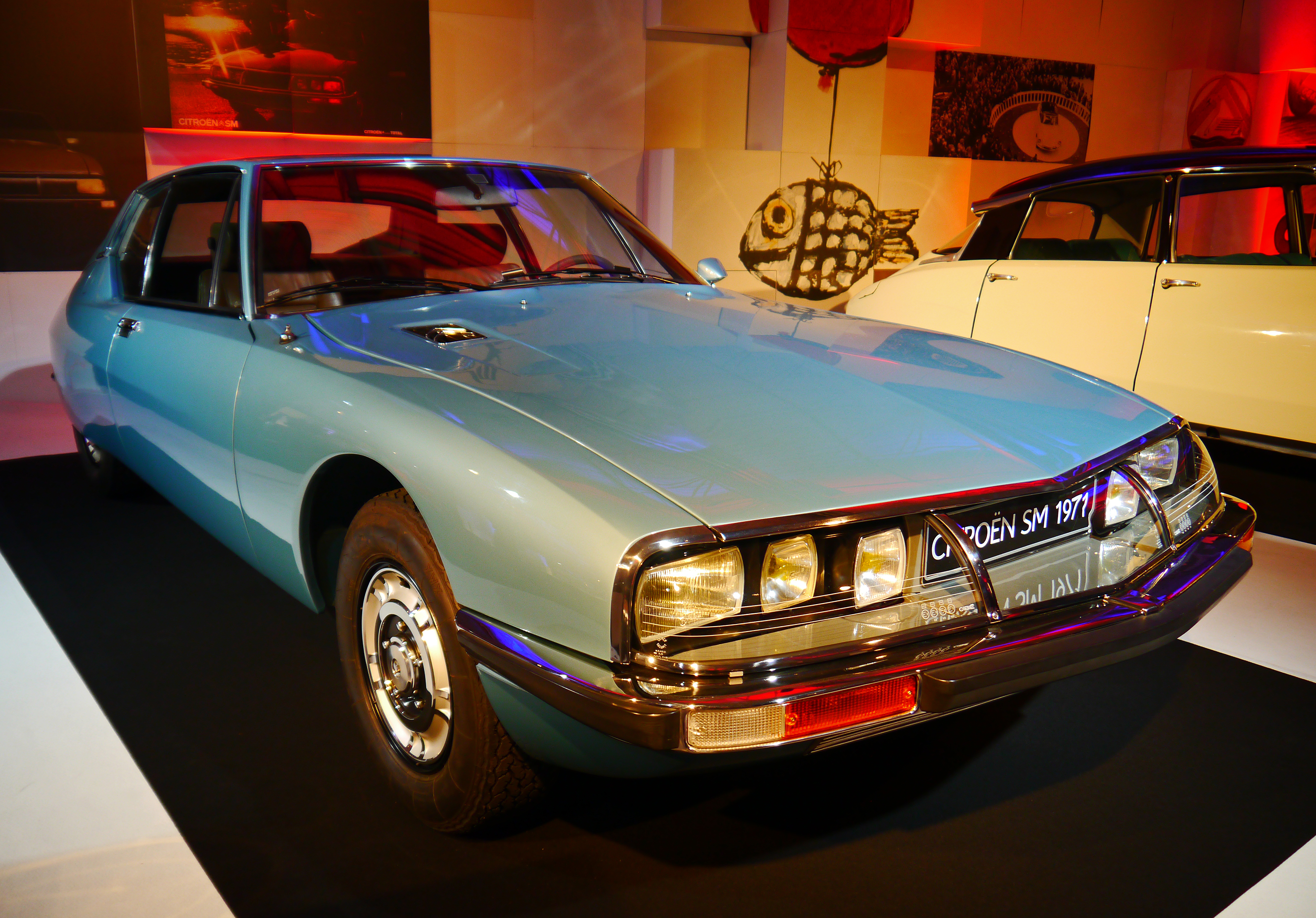 1971 Citroën SM. 2670 cc V6 Maserati (170 bhp).